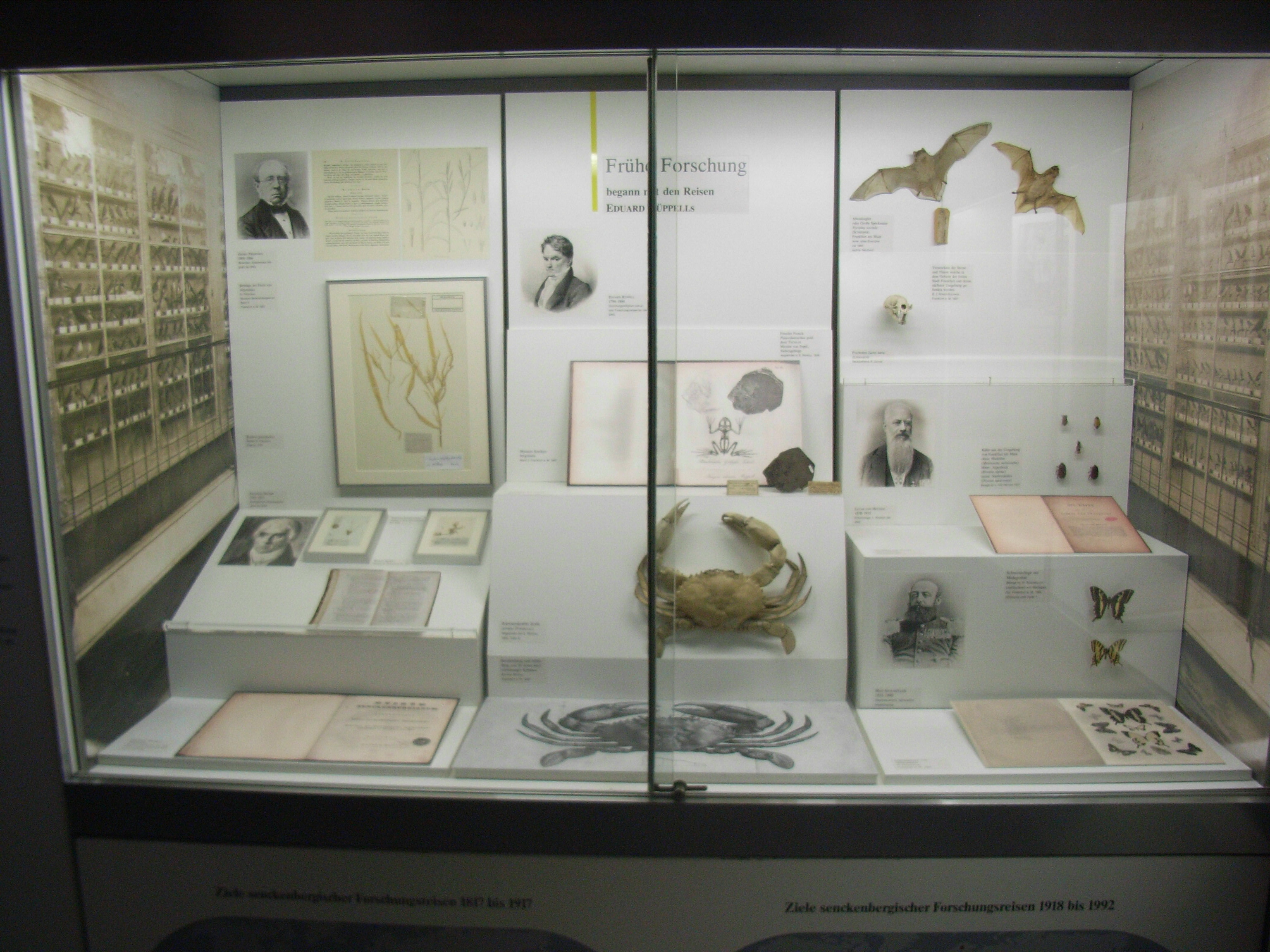 History of Senckenberg Museum Case illustrating - with portraits, specimens and books. Note the photos of the old bird collections left and right. LEFT The botanists Johannes Becker (1769-1833)!.The first curator for botany of the newly founded Senckenbergische Naturforschende Gesellschaft (founded in 1817) and his successor Georg Fresenius (1808-1866)!. CENTRE Wilhelm Peter Eduard Simon Rüppell (1794-1884) Lucas Friedrich Julius Dominicus von Heyden (1838-1915) Coleoptera Max Saalmüller (1832-1890) The book is Lepidoptera of Madagascar !Some guesswork here.